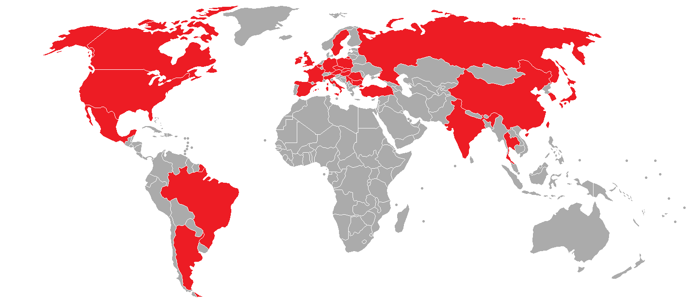 Magna International global locations (production sites by country)